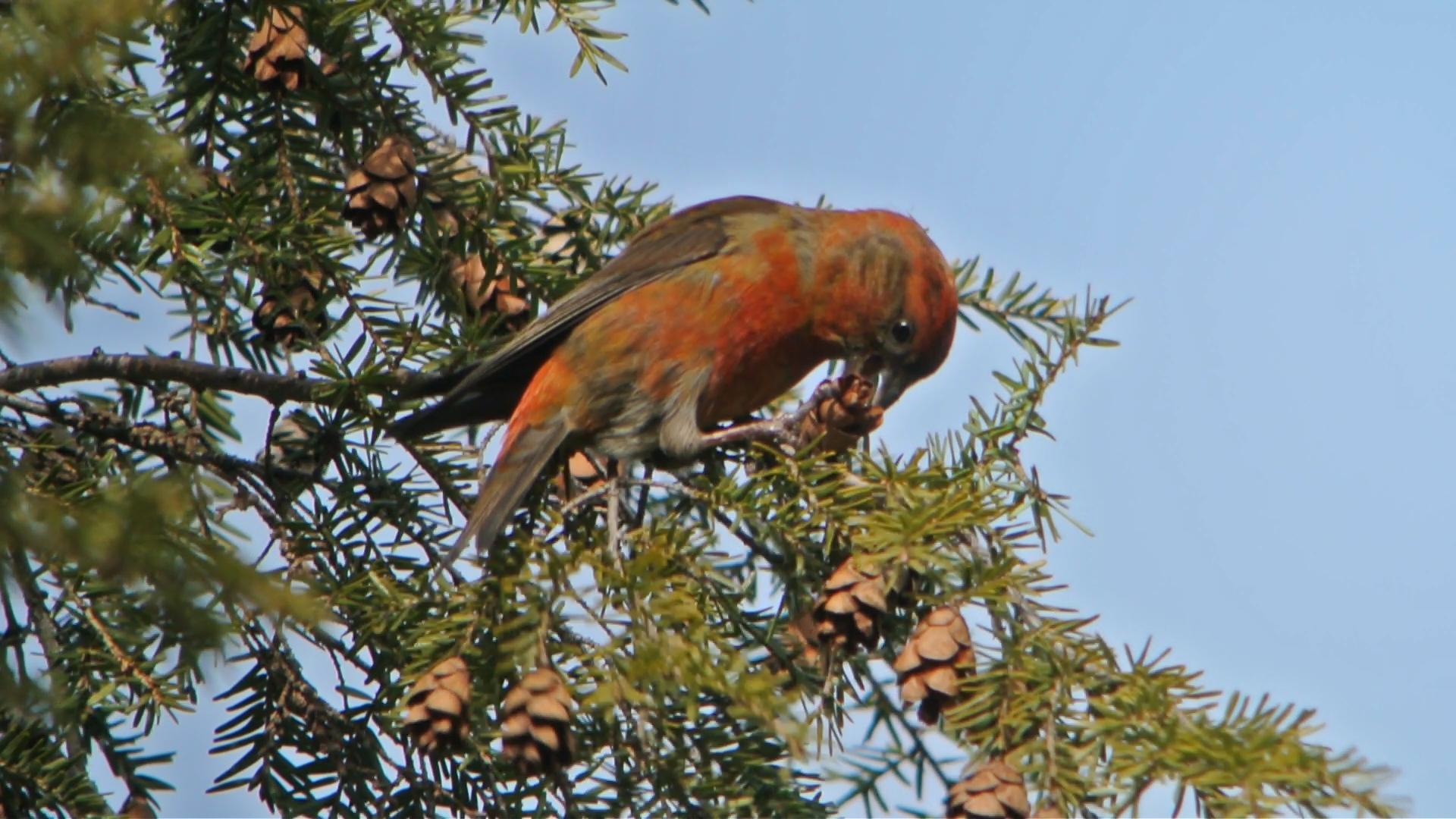 Carondelet Park in St. Louis, MO on 1/12/13. One lone male in the Hemlocks along Leona St. near Loughborough Ave.